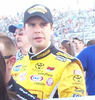 NASCAR Nationwide Series driver Burney Lamar at the 2009 race at the Milwaukee Mile.